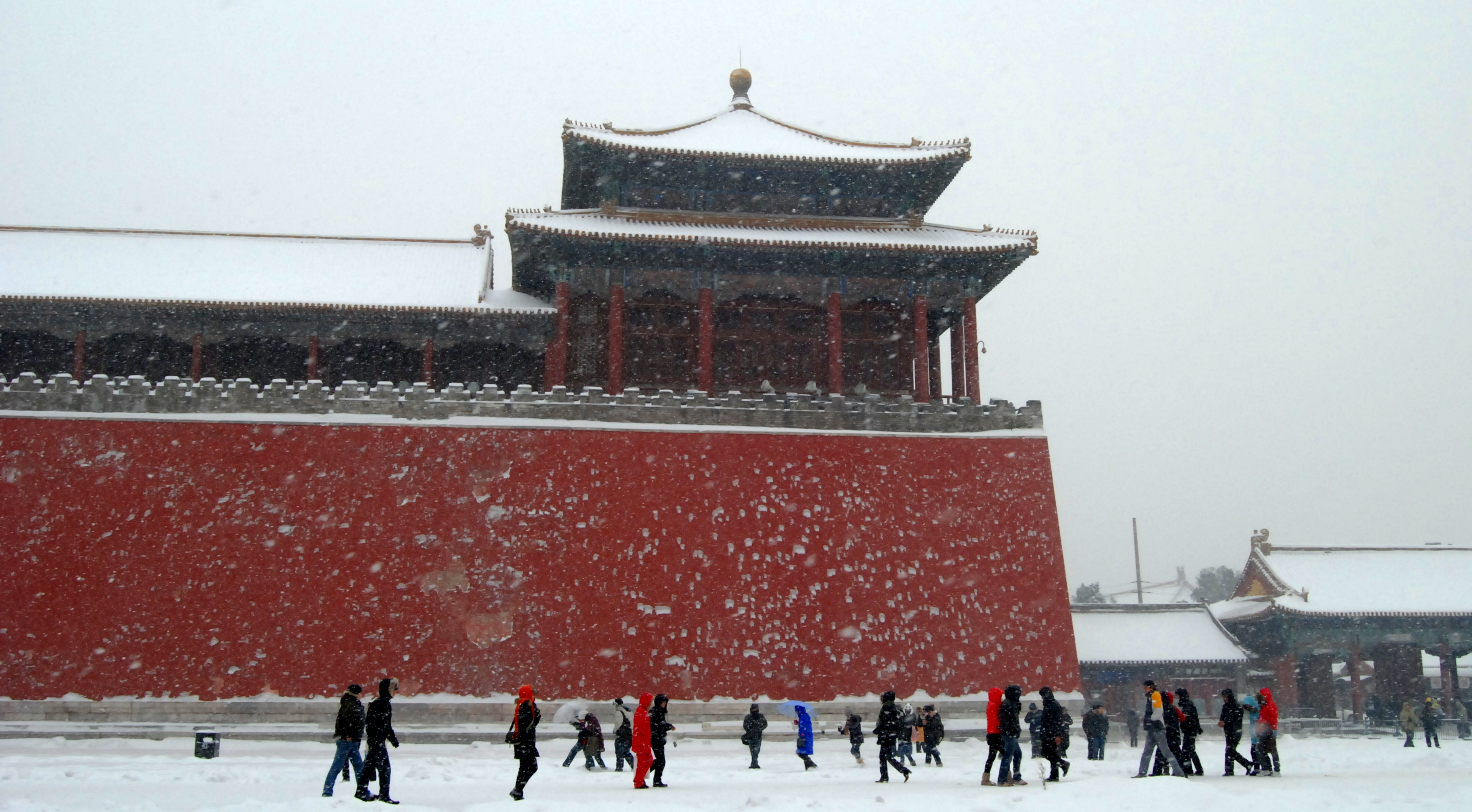 Beijing - Forbidden City(view East) - Meridian Gate